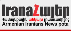 Logo iranahayer